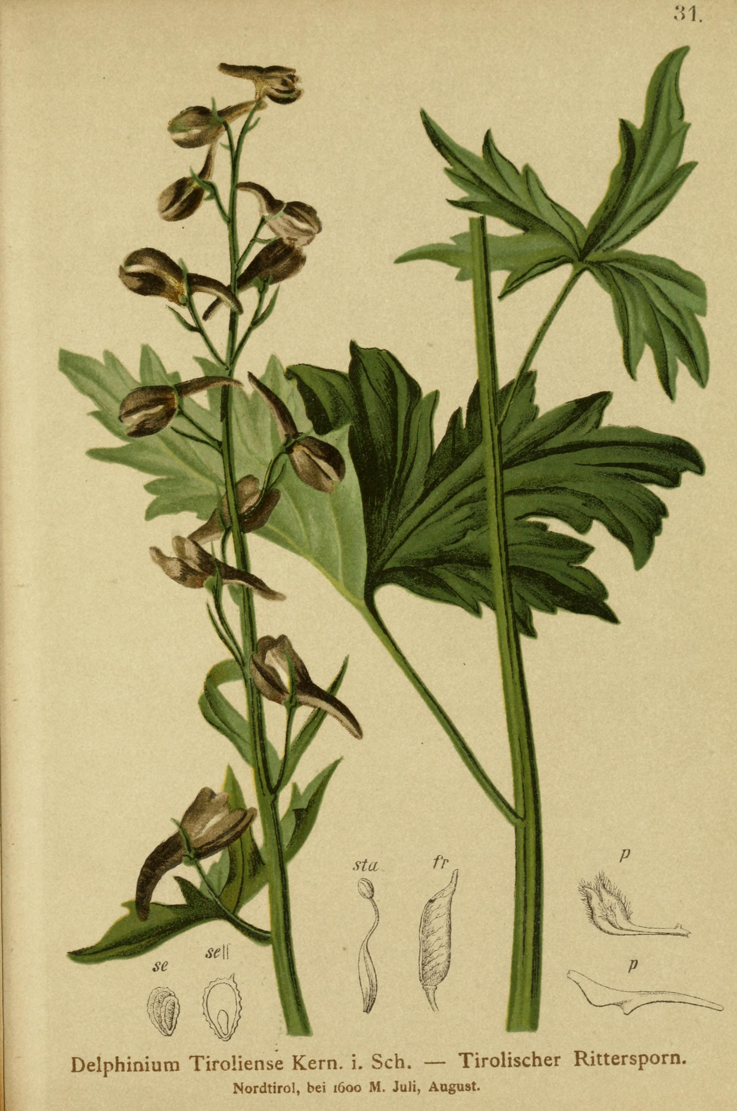 Title: Atlas der Alpenflora Year: 1882 (1880s) Authors: Hartinger, Anton, b. 1806; Dalla Torre, K. W. von (Karl Wilhelm), 1850-1928; Deutscher Alpenverein (Founded 1874) Subjects: Mountain plants Publisher: Wien : Eigenthum und Verlag des Deutschen und Oesterr. Alpenvereins Text Appearing Before Image: 'n Text Appearing After Image: Delphinium Tiroliense Kern. i. Seh. — Tirolischer Rittersporn. Nordtirol, bei 1600 M. Juli, August.